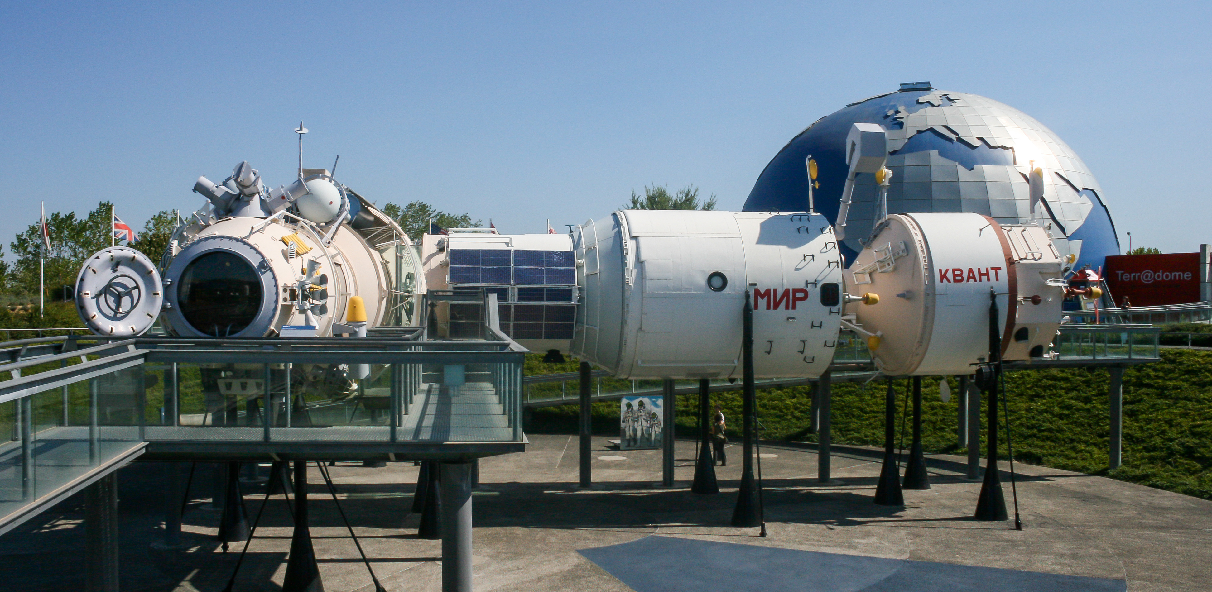 A replica of Mir at the Cite de l'Espace in Toulouse, France.